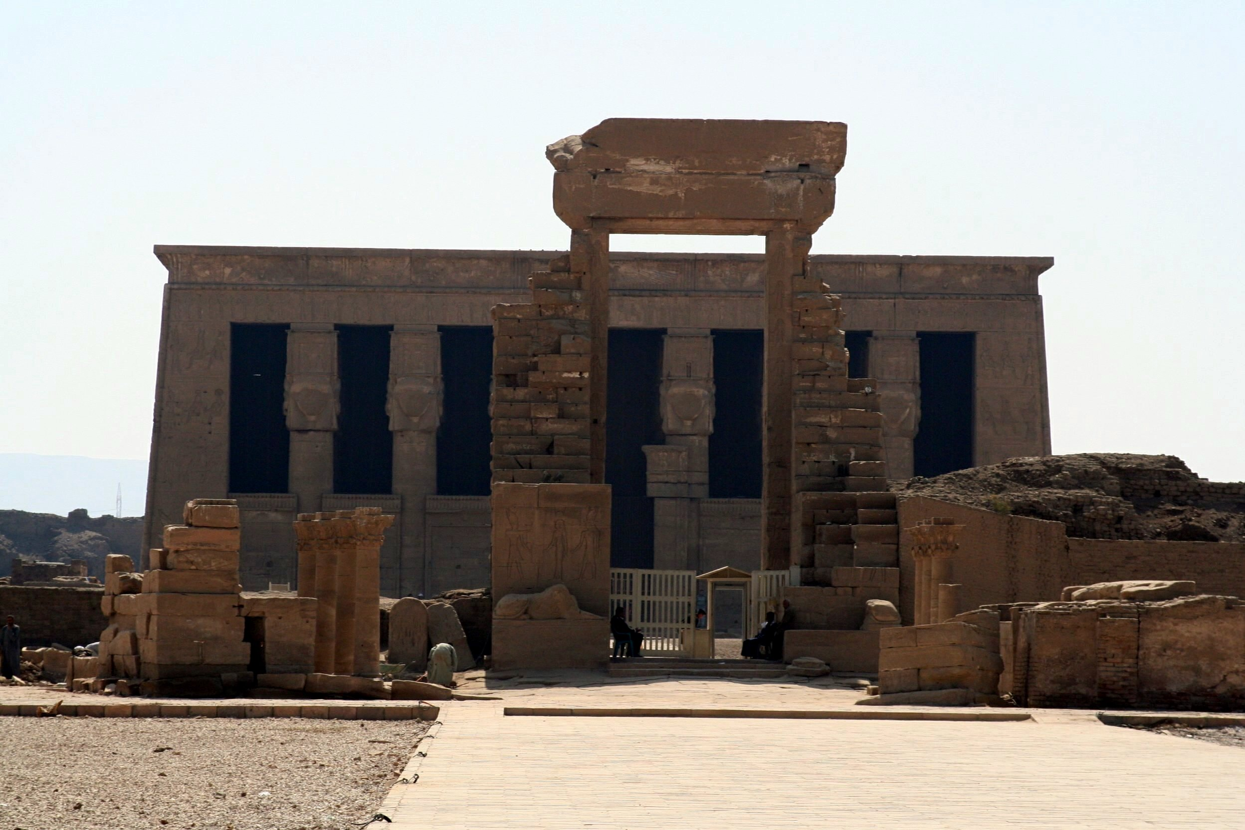 The Temple of Hathor at Dendera